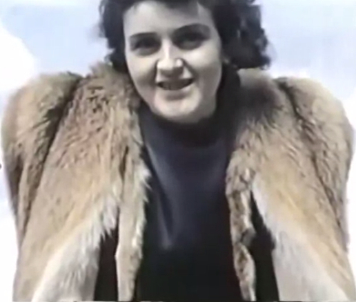 Cut from: Eva Braun's home movie Eva Braun & family vacation; Hitler at Berghof. She captures in the private life of the Nazi high command. Einblick in das private Leben von Eva Braun und Adolf Hitler . The Hitler home movies